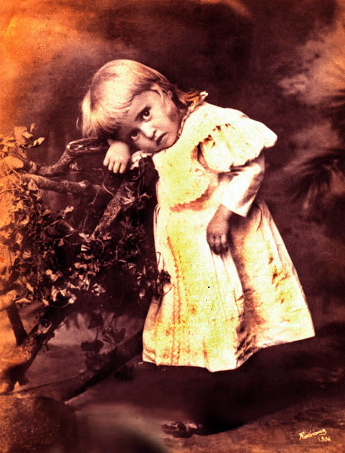 A picture of the Colombian poet, León de Greiff, when he was one year old in Medellín.